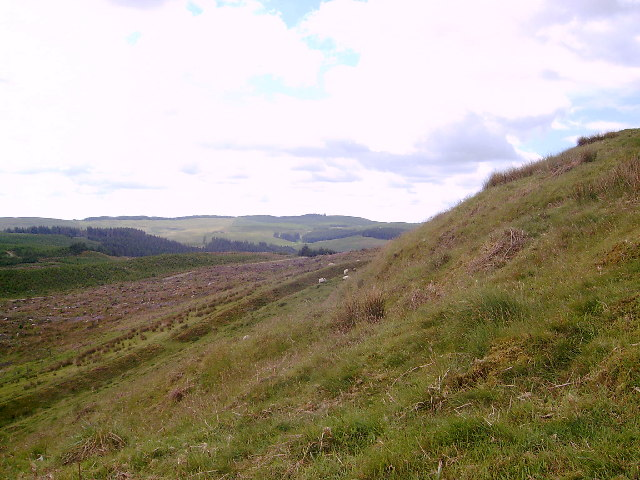 Part of the earthworks of Castle O'er iron age hill fort. This impressive hill fort was probably occupied by an important branch of the Selgovae tribe.